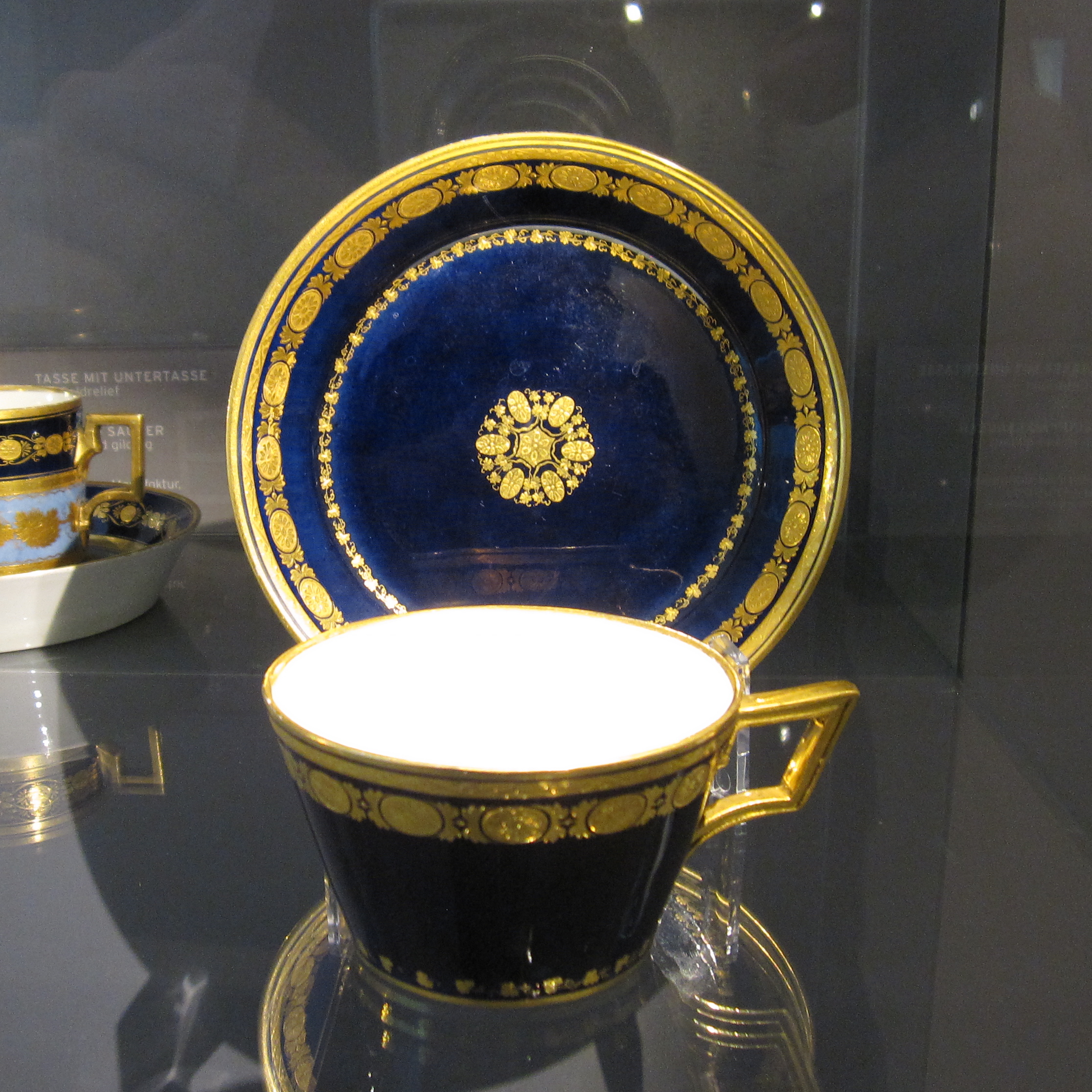 Teacup and saucer with raised gilding. Imperial Manufactury. Vienna, 1798/1799. Collection APR, Styria.